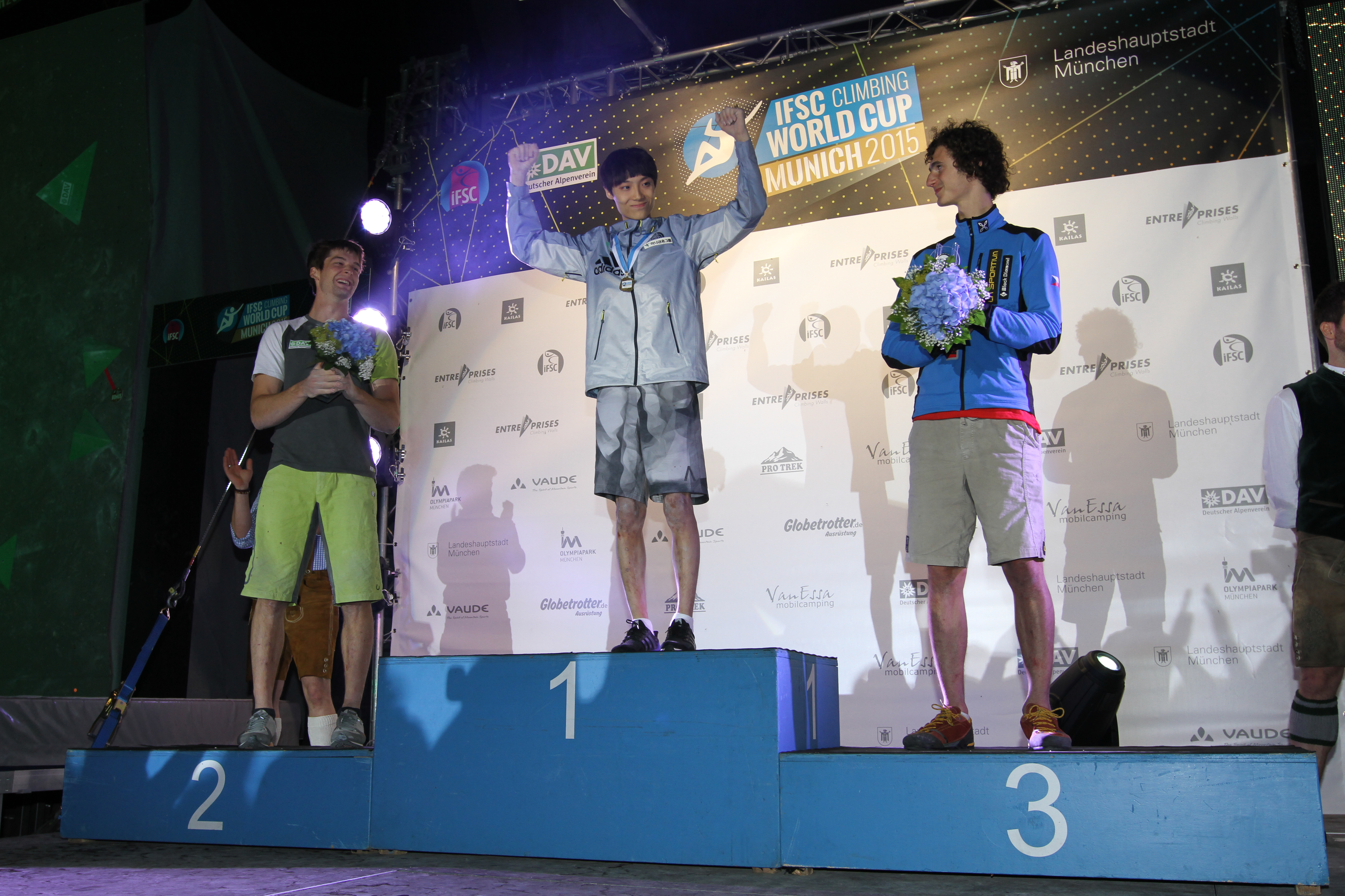 IFSC Boulder Worldcup, Munich 2015. Winners of the men's saison: 1: Chon, Jongwon (KOR), 2: Hojer, Jan (GER), 3: Ondra, Adam (CZE)